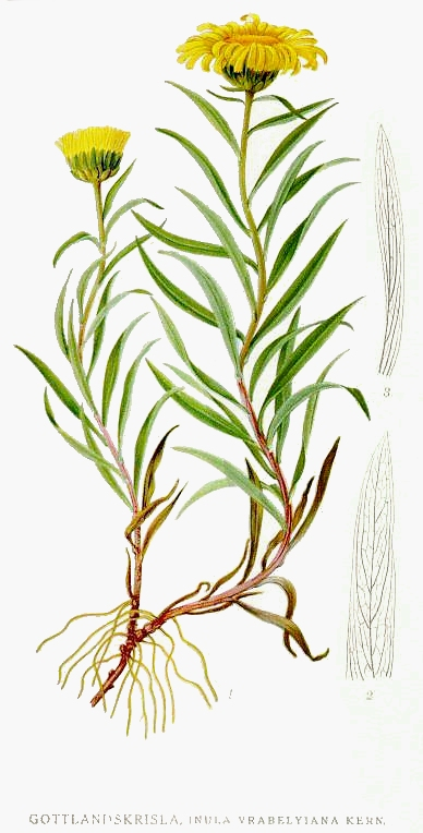 Rob. E. Fries proposes that Inula × vrabelyiana Kern. on Gotland is a bastard of Inula salicina × I. ensifolia.[1] Original Description Gottlandskrisla, Inula vrabelyiana Kern.